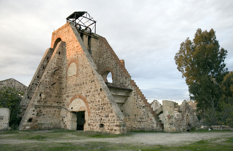 Winding tower of San Vicente Pit, San Miguel Mine, Linares, Jaén, Spain